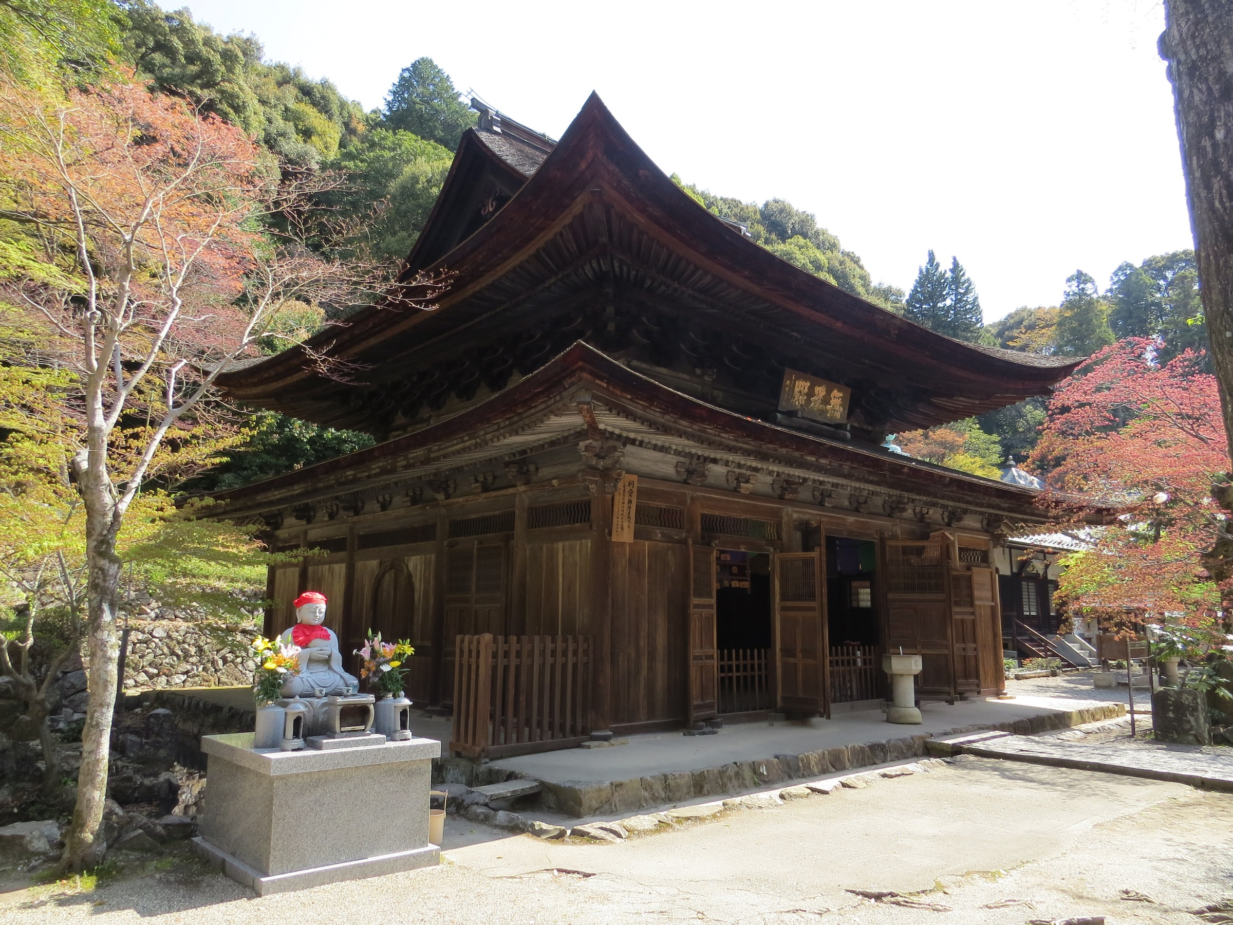 Jōkōji, hondō, Seto, Aichi, Japan.